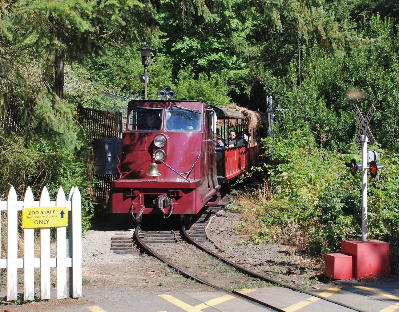 Washington Park & Zoo Railway locomotive No. 5, the Oregon Express, entering the zoo grounds from the woods of Washington Park, in Portland, Oregon. The railroad has a track gauge of 30 inches (762 mm) and approximately 5/8-scale rolling stock.